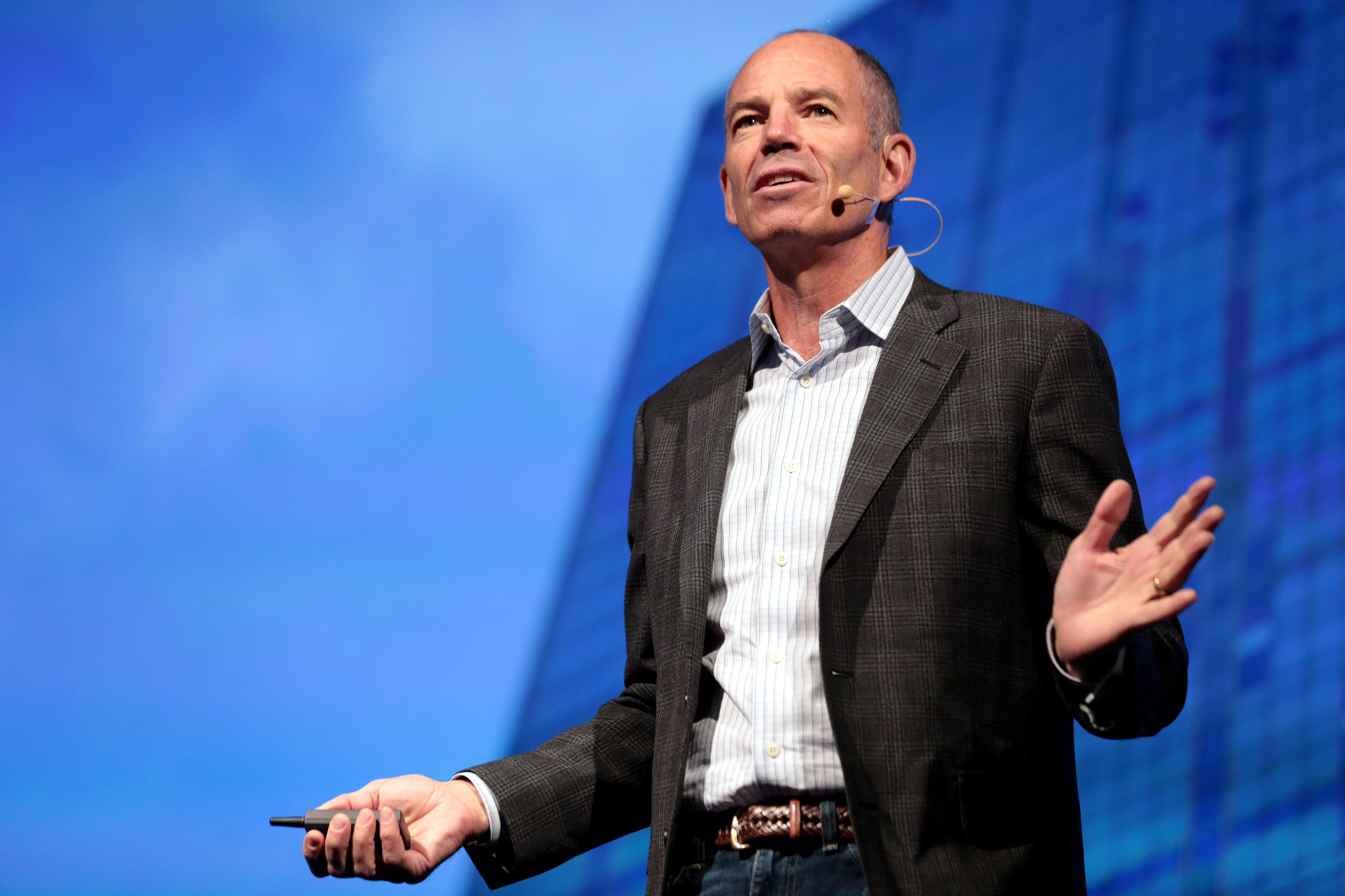 Marc Randolph, co-founder of Netflix, speaking with attendees at the 2017 Cloud Summit hosted by Ingram Micro at the JW Marriott Desert Ridge Resort & Spa in Phoenix, Arizona.